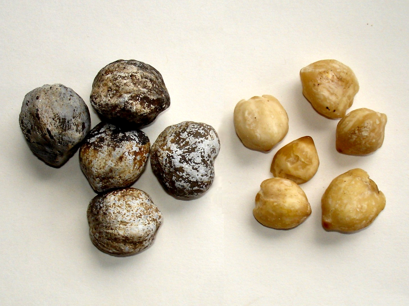 unshelled and shelled nuts of the candlenut tree (Aleurites moluccana), northern Buton Island, Indonesia